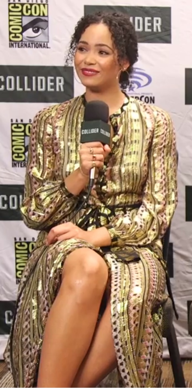 One of the many shows to visit this year’s Comic-Con was The CW’s reboot of Charmed. Inspired by the original series, the reboot centers on three sisters in a college town who, after the tragic loss of their mother, discover they are powerful witches. As you might expect, the sisters will use their powers to vanquish demons and protect the innocent. The series stars Melonie Diaz, Sarah Jeffery, Madeleine Mantock and Rupert Evans. Shortly before their Comic-Con panel, Diaz, Jeffery, and Mantock came by the Collider Studio for an exclusive interview. They talked about coming to the con for the first time, how their version of Charmed is different from the original, having the advantage of modern VFX, if they will exist in the same universe as the CW superhero shows, what show they’d love to guest star on, if they collect anything, and a lot more.